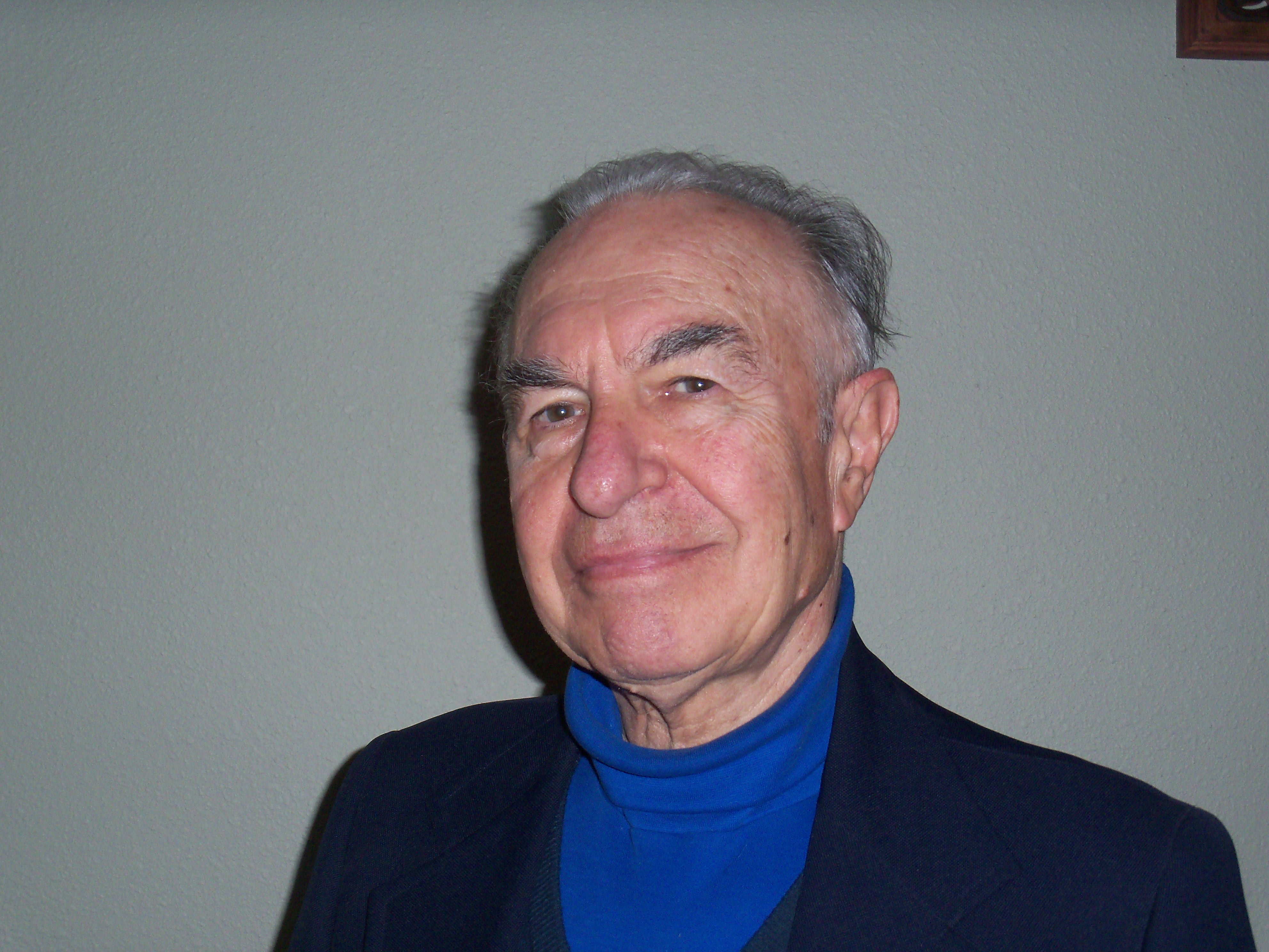 This is personal photograph of Alexandru T. Balaban